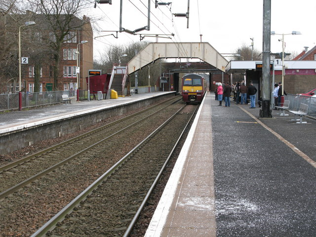 Shettleston Railway Station The station between Shettleston and Garrowhill on the Glasgow to Coatbridge railway line.